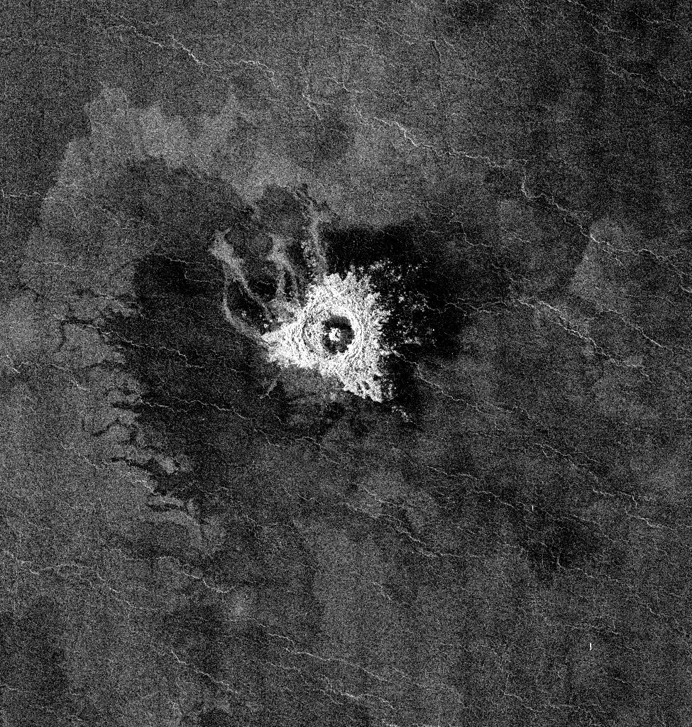 This Magellan full-resolution image shows Jeanne crater, a 19.5 kilometer (12 mile) diameter impact crater. Jeanne crater is located at 40.0 degrees north latitude and 331.4 degrees longitude. The distinctive triangular shape of the ejecta indicates that the impacting body probably hit obliquely, traveling from southwest to northeast. The crater is surrounded by dark material of two types. The dark area on the southwest side of the crater is covered by smooth (radar-dark) lava flows which have a strongly digitate contact with surrounding brighter flows. The very dark area on the northeast side of the crater is probably covered by smooth material such as fine-grained sediment. This dark halo is asymmetric, mimicking the asymmetric shape of the ejecta blanket. The dark halo may have been caused by an atmospheric shock or pressure wave produced by the incoming body. Jeanne crater also displays several outflow lobes on the northwest side. These flow-like features may have formed by fine-grained ejecta transported by a hot, turbulent flow created by the arrival of the impacting object. Alternatively, they may have formed by flow of impact melt.